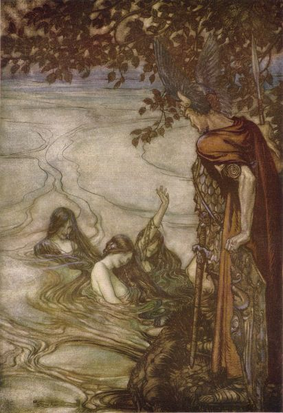 Rhein maidens warn Siegfried. Originally the image stems from Richard Wagner's Siegfried and the Twilight of the Gods, published in the same way in 1911 in London (William Heinemann) and New York (Doubleday, Page).